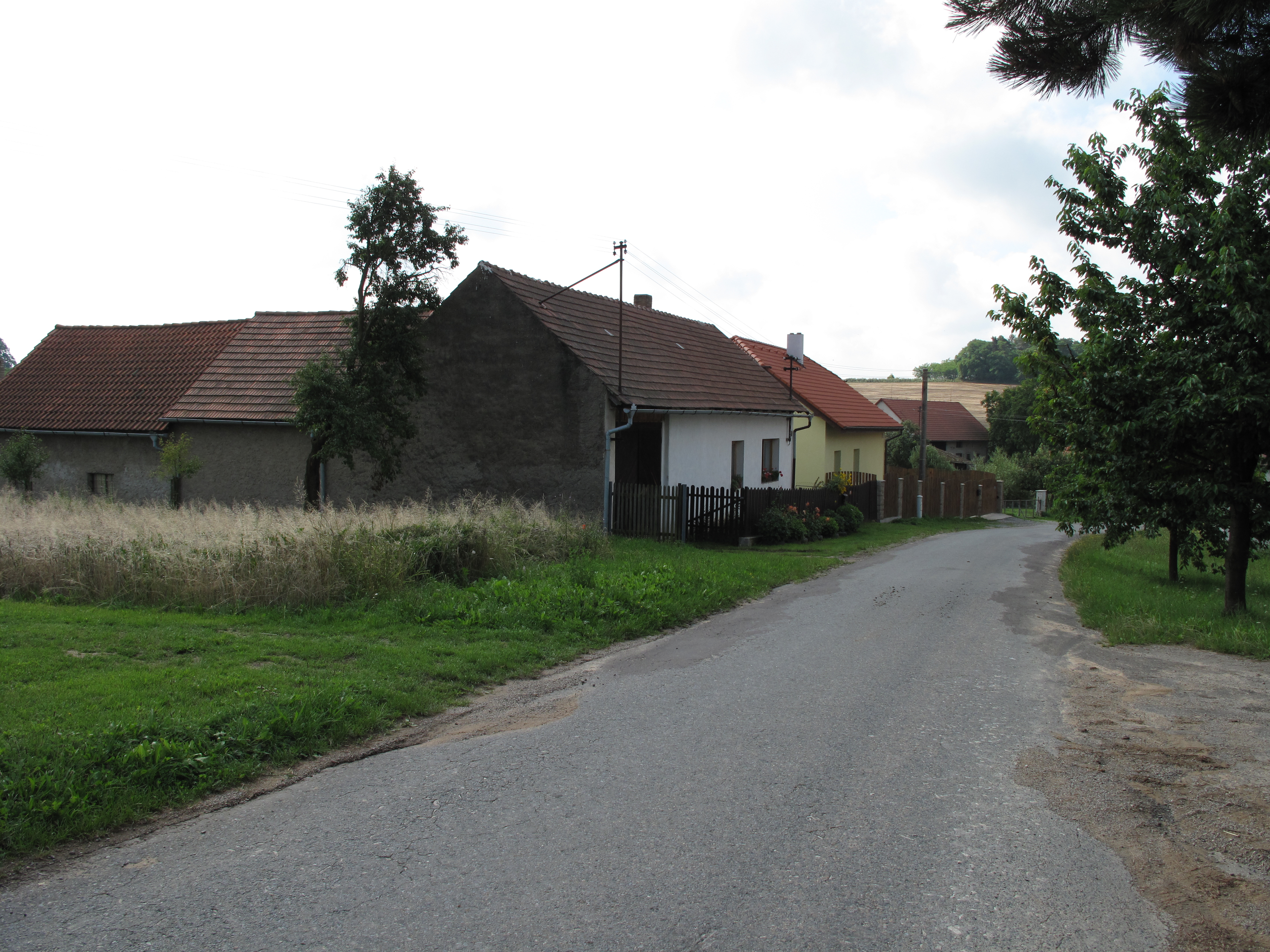 This photograph was taken within the scope of the second year of the 'Czech Municipalities Photographs' grant.